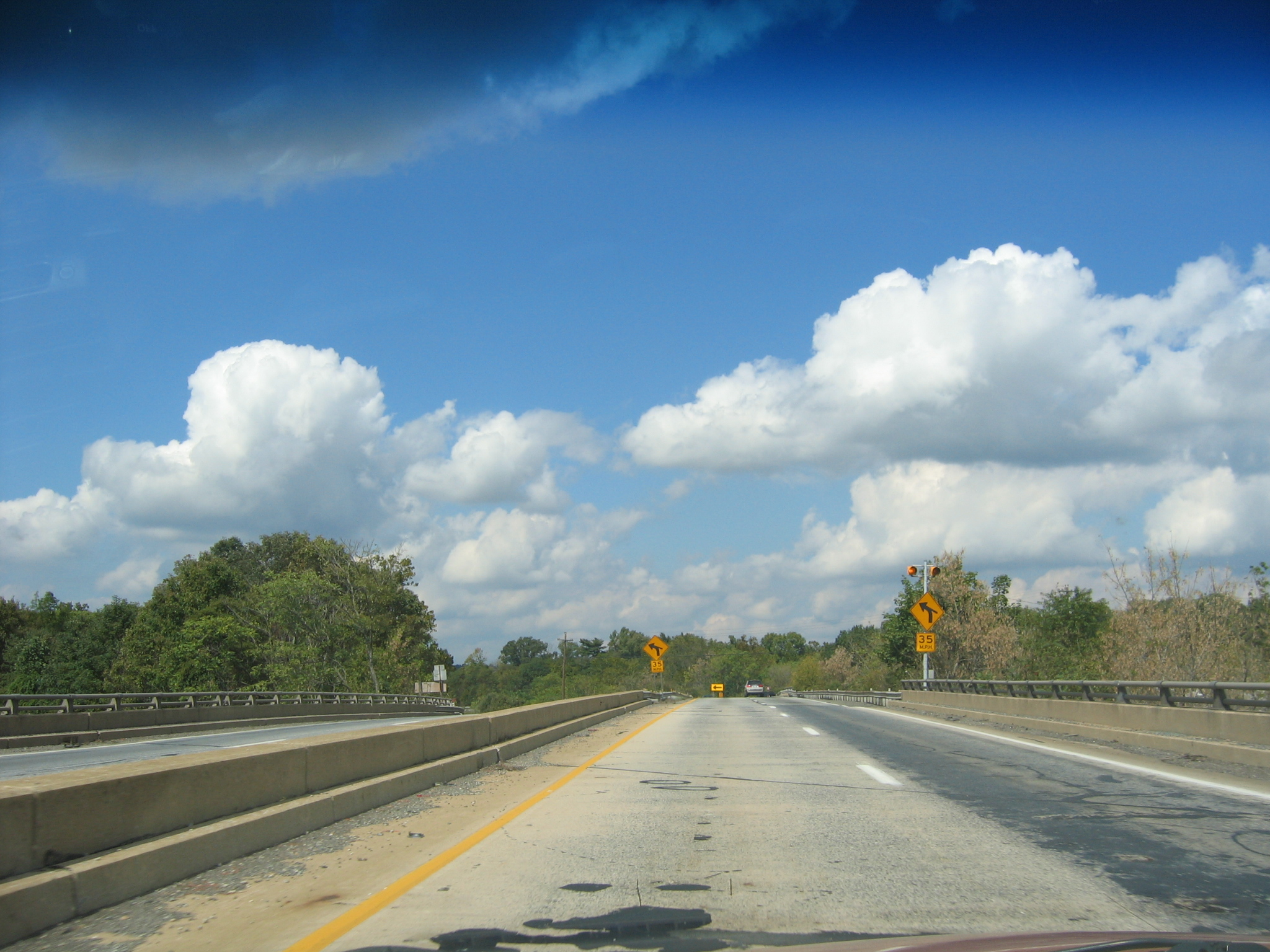 Heading Westbound on US Route 422 near Douglassville, PA the expressway ends, rumble strips can be seen to slow traffic down.